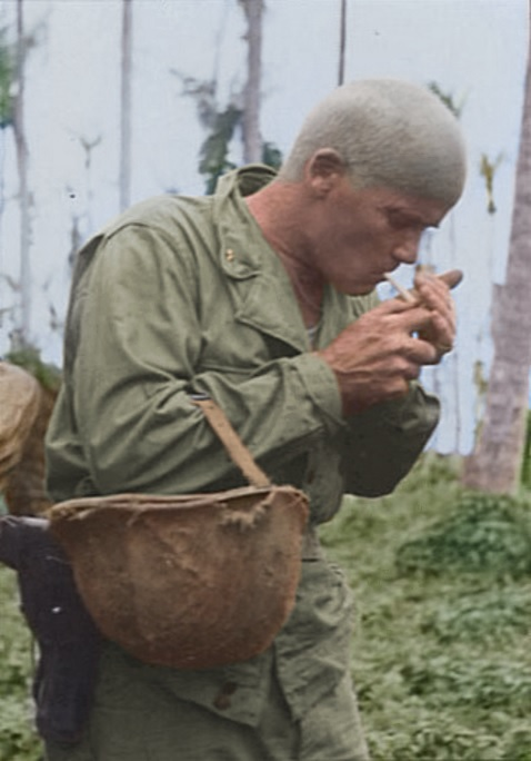 Brigadier General Julian Cunningham lights a cigarette at Amulet Plantation after the Battle of Arawe. Colorized photograph.